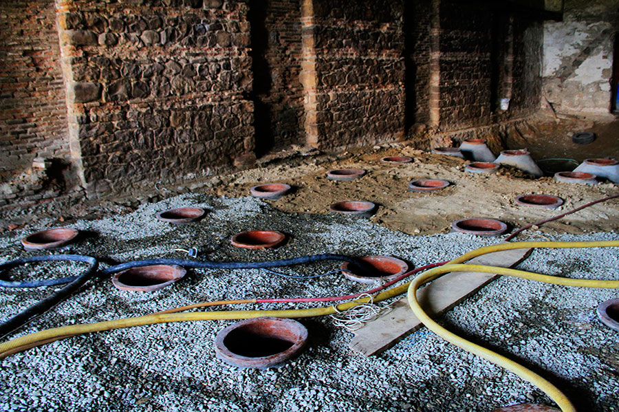 Qvevris in Chateau Zegaani Winery